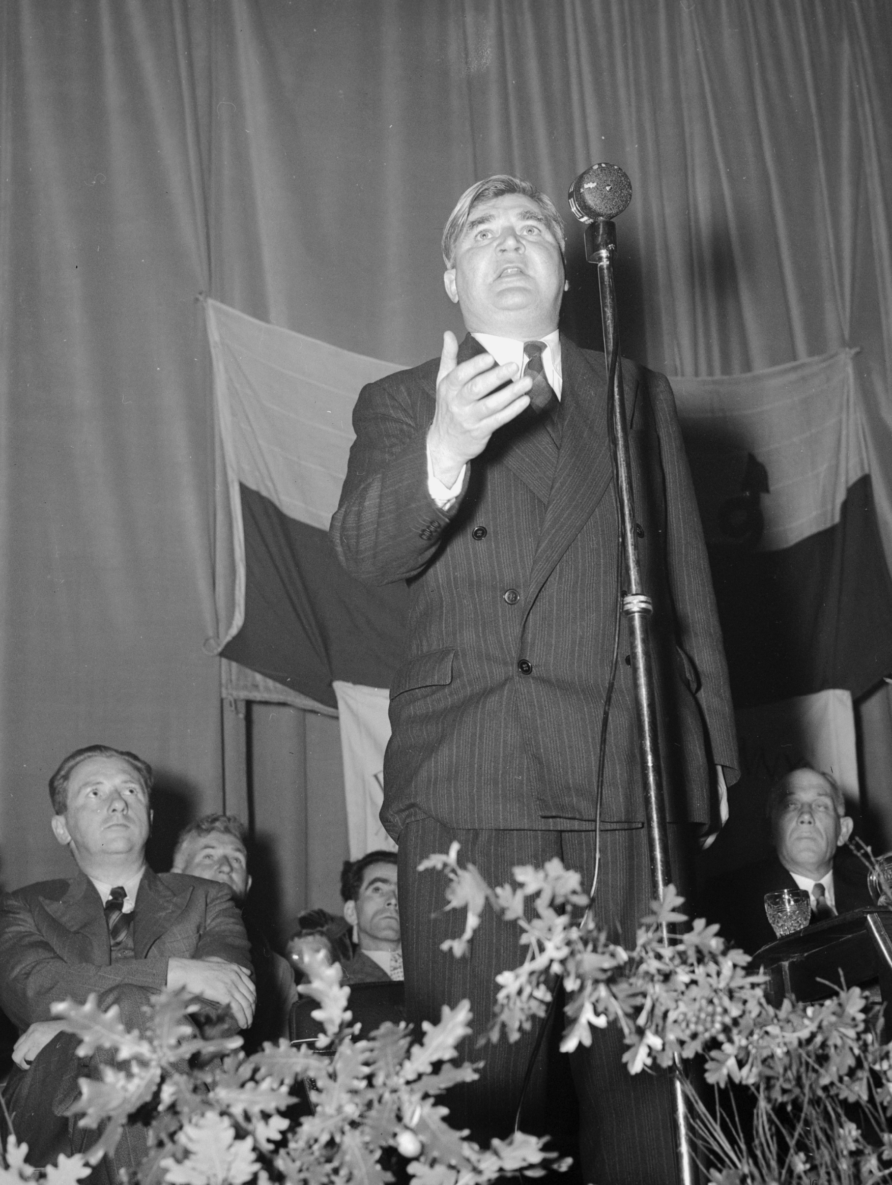 Teitl Cymraeg/Welsh title: Aneurin Bevan a'i briod Jenny Lee yng Nghorwen Ffotograffydd/Photographer: Geoff Charles (1909-2002) Dyddiad/Date: 3/10/1952 Cyfrwng/Medium: Negydd ffilm / Film negative Cyfeiriad/Reference: (gch03567) Rhif cofnod / Record no.: 3368763 Rhagor o wybodaeth am gasgliad Geoff Charles yn Llyfrgell Genedlaethol Cymru More information about the Geoff Charles Collection at the National Library of Wales Mae ffotograffau Geoff Charles hefyd yn rhan o Broject Europeana Libraries Geoff Charles' photographs also form part of the Europeana Libraries Project